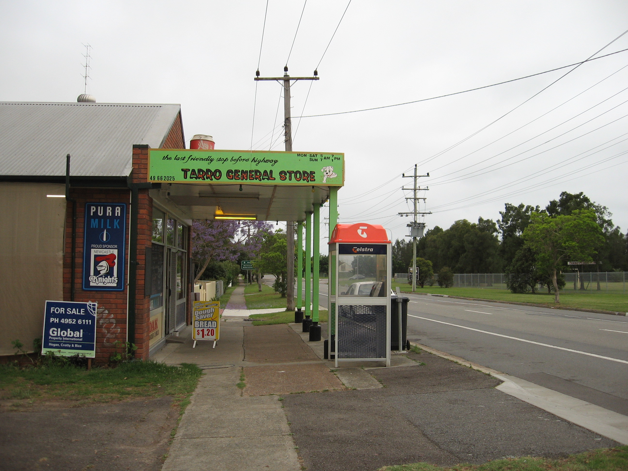 General_Store,_Tarro_2322_NSW,_Australia_(Nov 2006)Reopened 2010